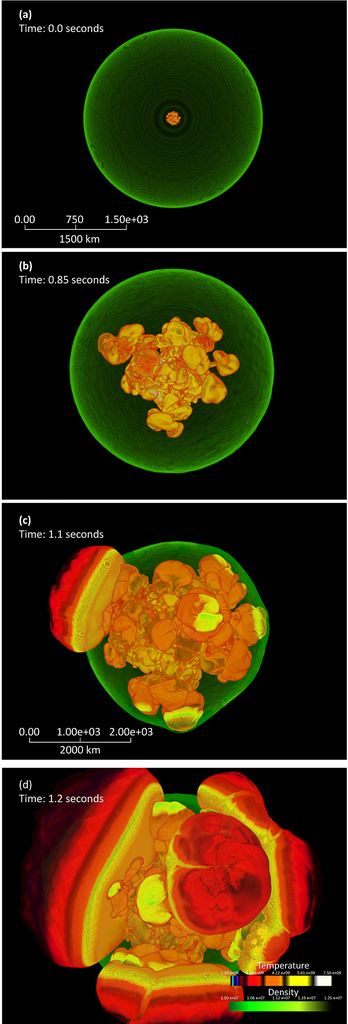 Four snapshots during a simulation of the explosion phase of the deflagrationto-detonation model of nuclear-powered Type Ia supernovae. The images show extremely hot matter (ash or unburned fuel) and the surface of the star (green). Ignition of the nuclear flame was assumed to occur simultaneously at 63 points randomly distributed inside a 128-km sphere at the center of the white dwarf star. Image: Argonne National Laboratory